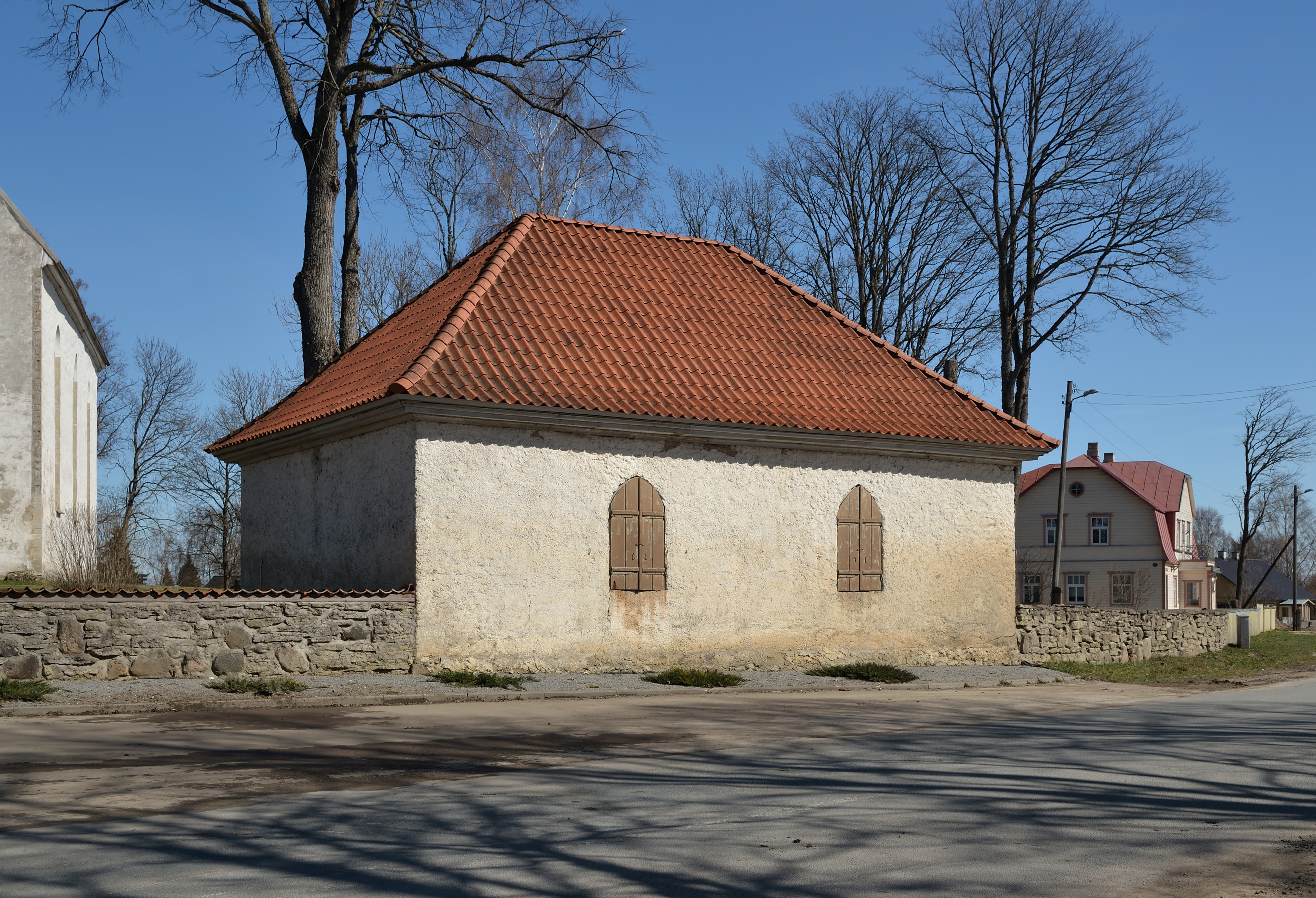 Koeru churchyard chapel